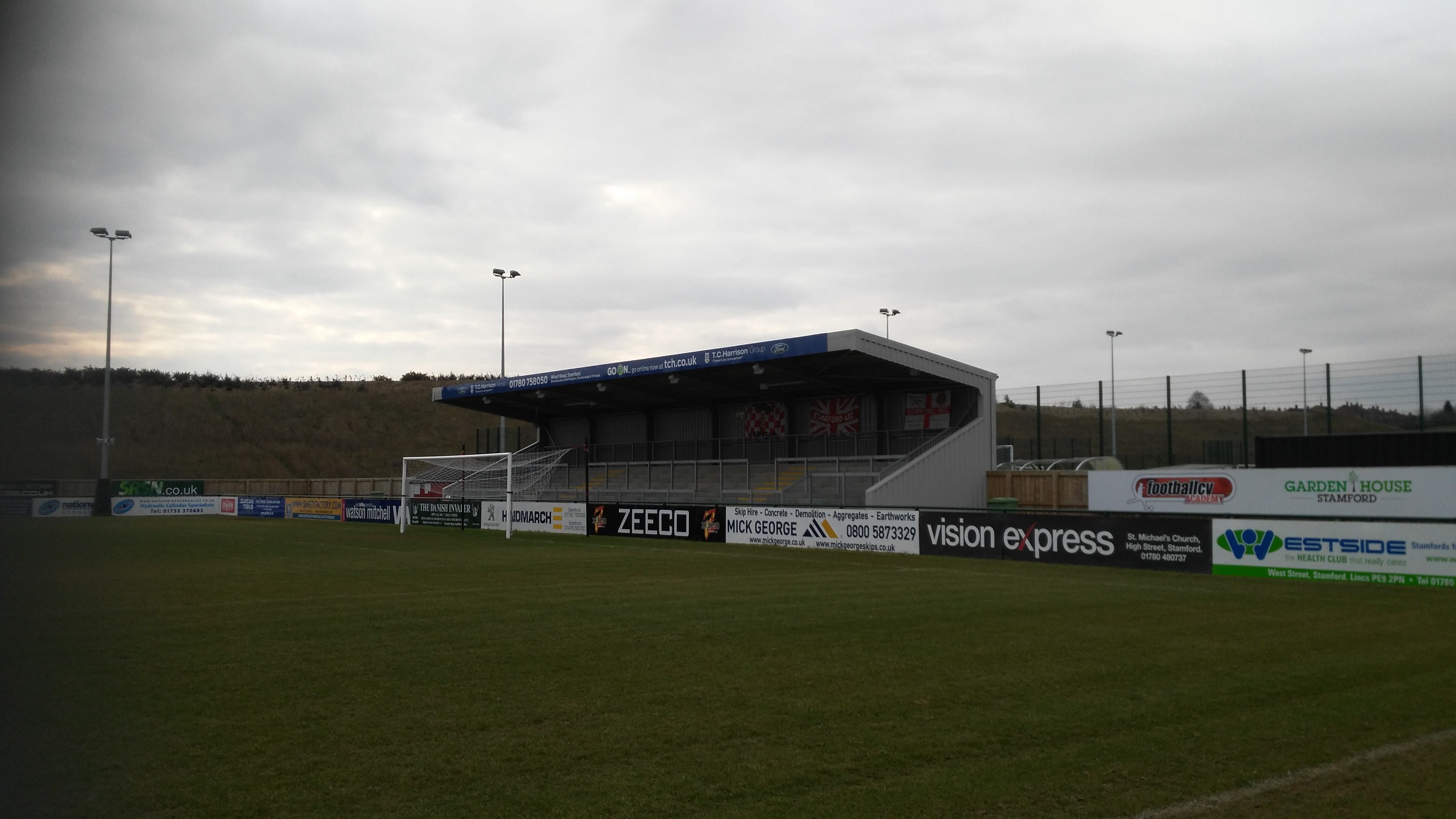 stamford fc covered terrace end stand